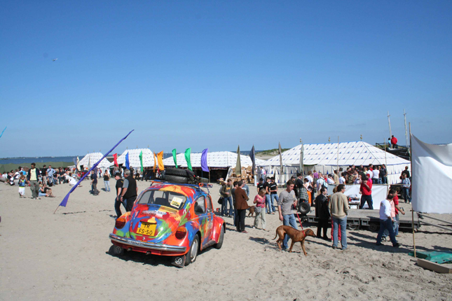 Description Barreldag 2006 Date9 September 2006Source StevensPermission (Reusing this file) 1-1-2007 Barreldag 2006